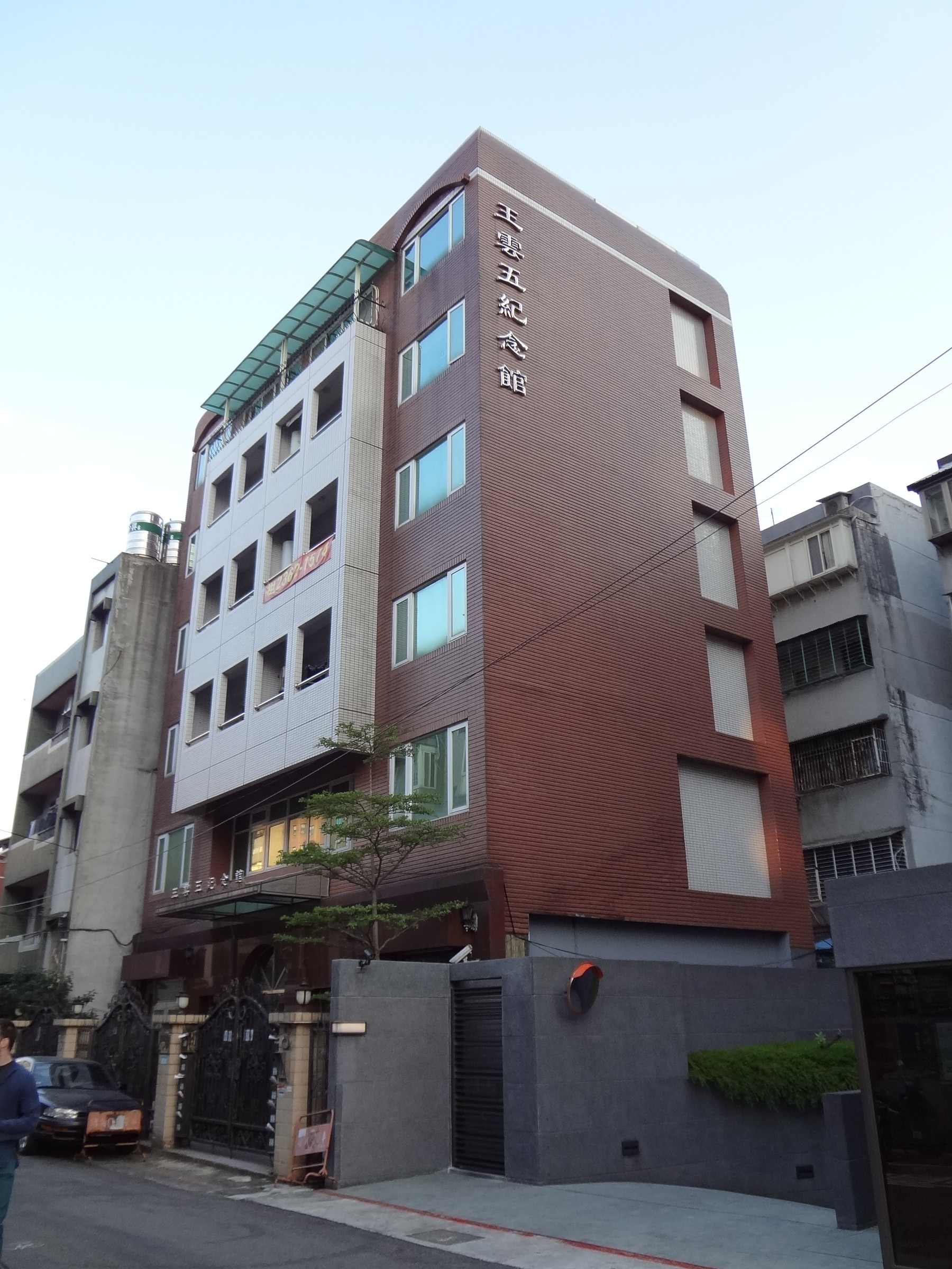 Wang Yun-wu Memorial Hall, Da'an District, Taipei City.